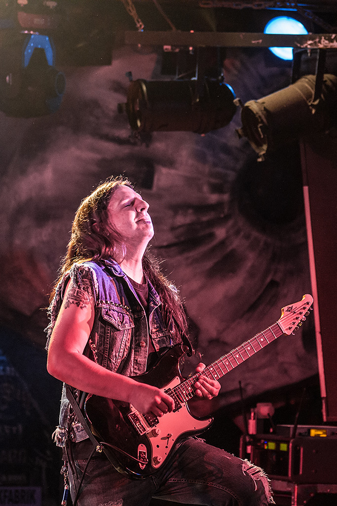 Troy Seele performing with Iced Earth in December 2012.